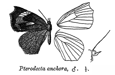 Male Pterodecta anchora = Pterodecta felderi (Bremer, 1864), upperside, wing venation, head from lateral